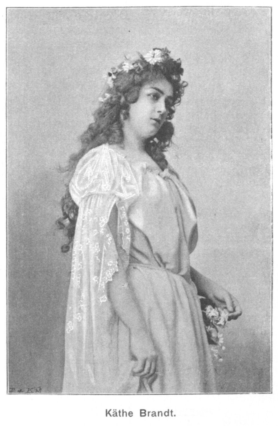 Portrait of Käthe Brandt (1884-1902), German actress